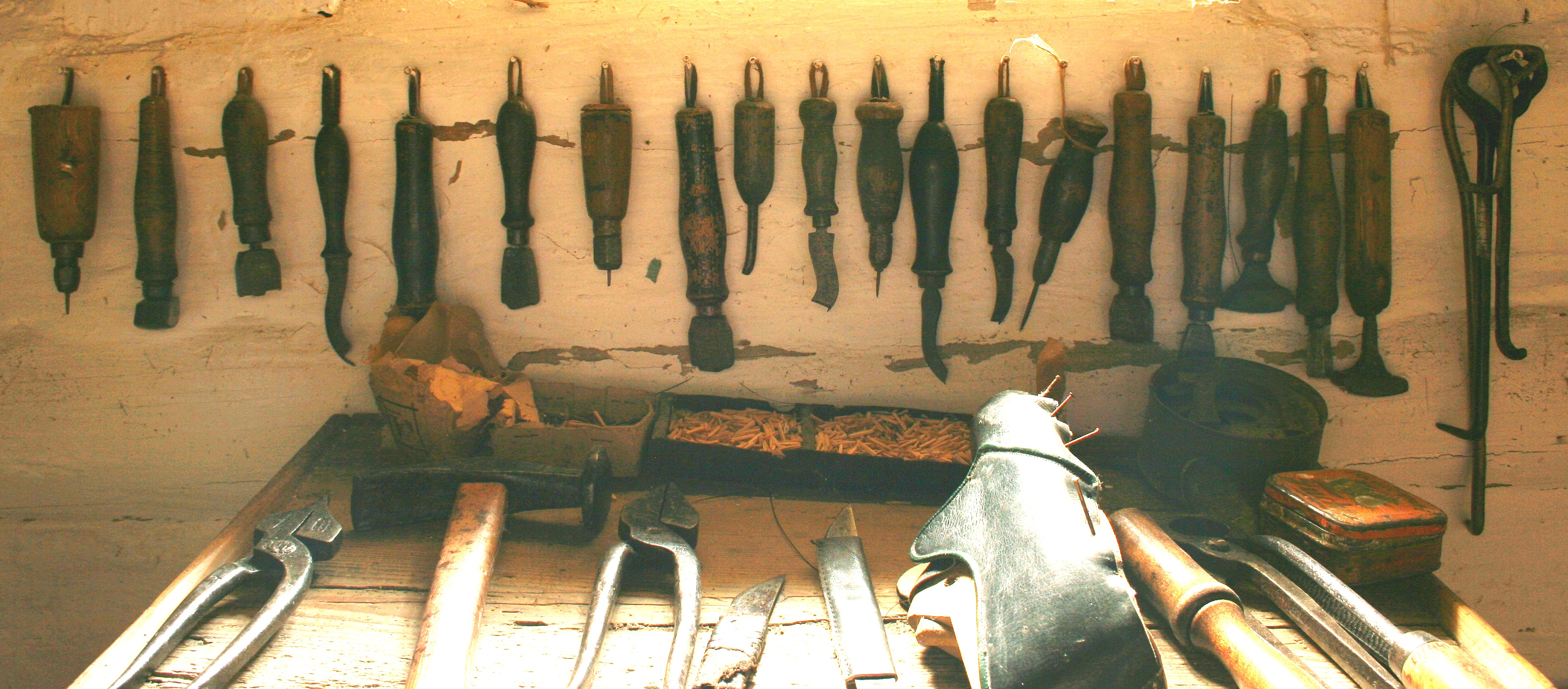 Skansen in Nowy Sącz, Poland